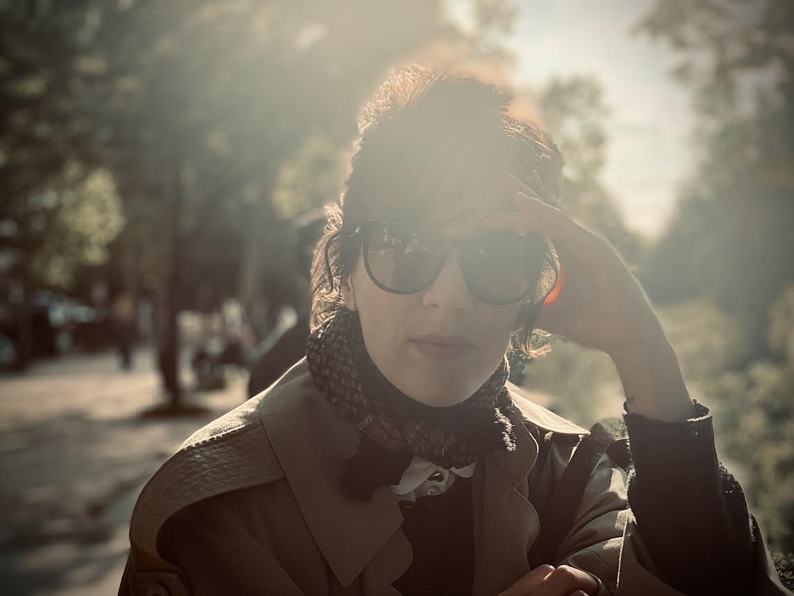 Marie-Ève Lacasse, Paris, 11 may 2020. Photograph by Eva Husson.